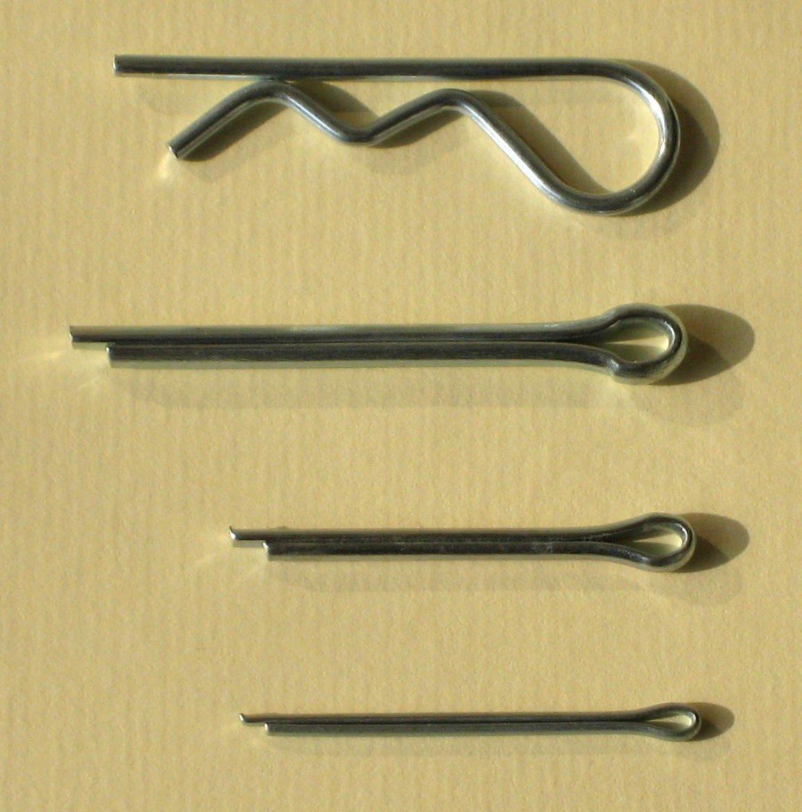 Cotter pins